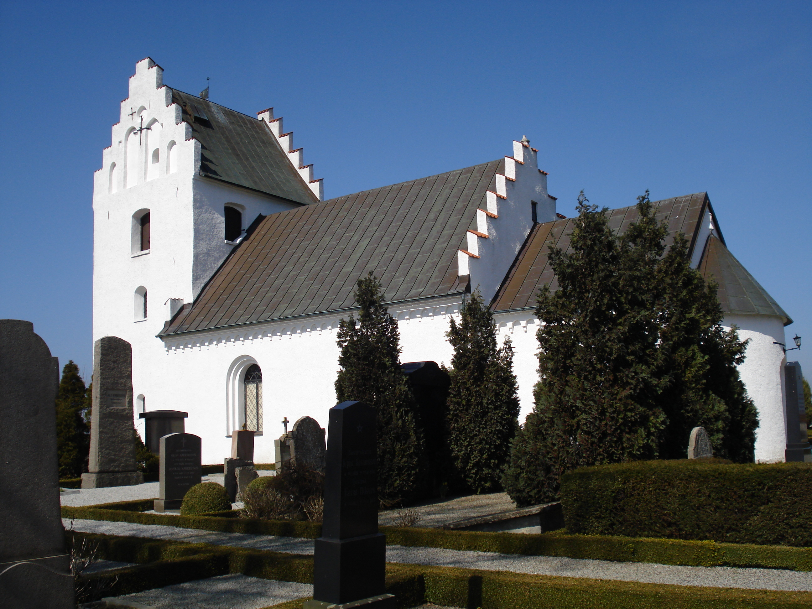 The church Kyrkoköpinge kyrka seen from south-east. The church was built in the 12th century and is located near Trelleborg, Sweden.